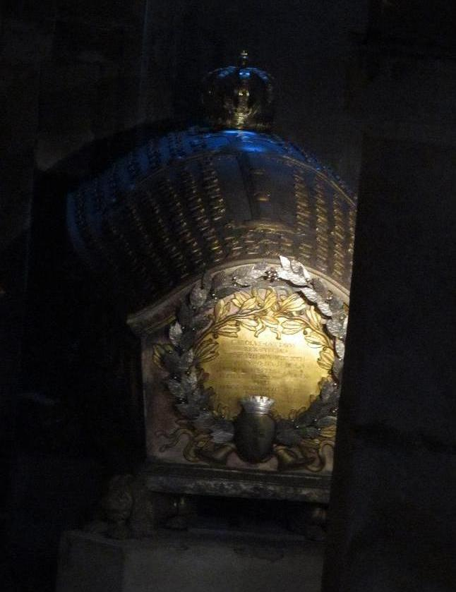 Grave of King Carl X Gustav of Sweden (1622-1660) in the crypt of the Caroline Chapel at Riddarholm ChurchPlace: Stockholm, Sweden